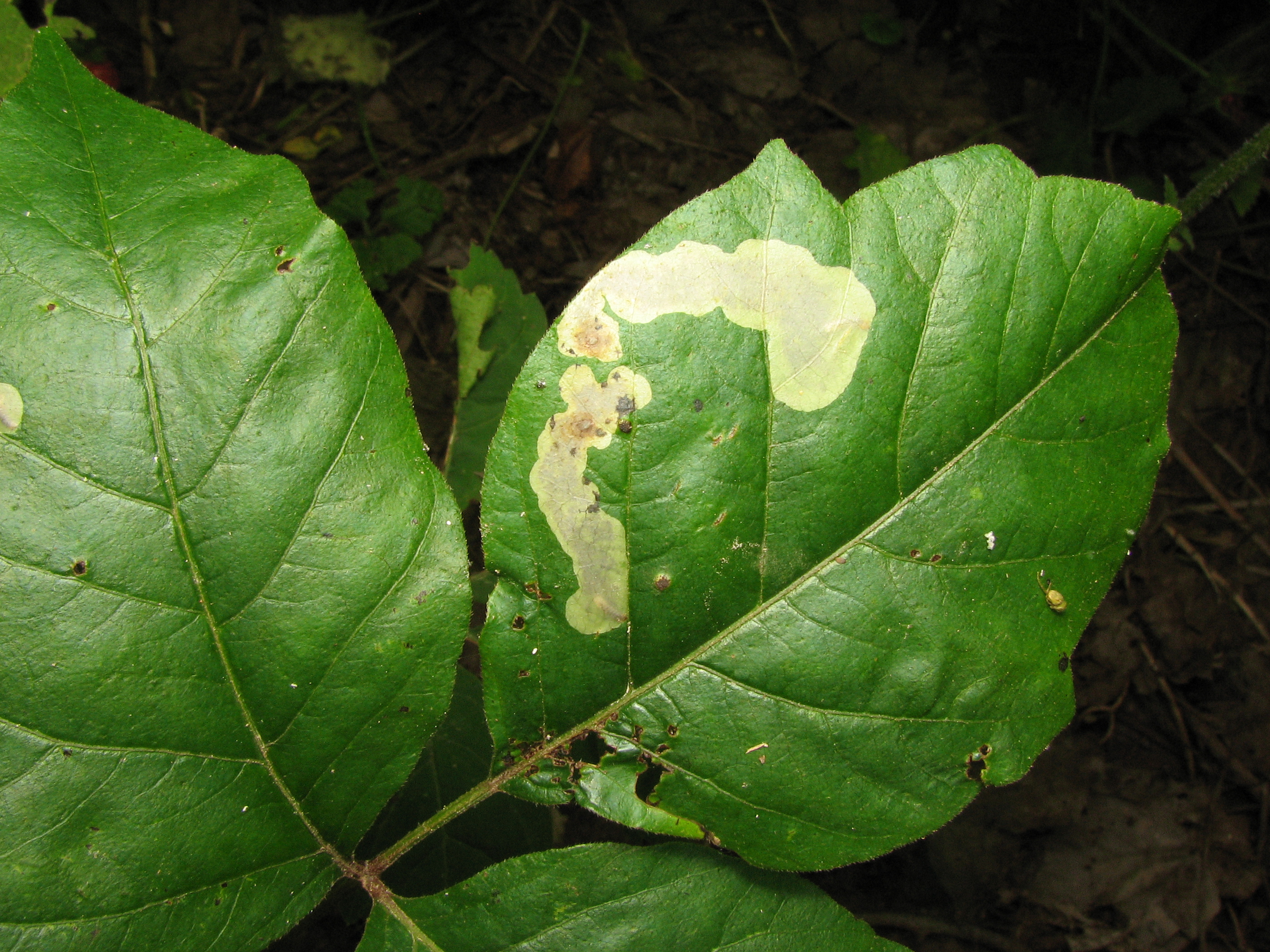 Leaf mine of Cameraria guttifinitella (Hodges#0822) on poison ivy. Pennypack Restoration Trust, Montgomery County, Pennsylvania, USA.